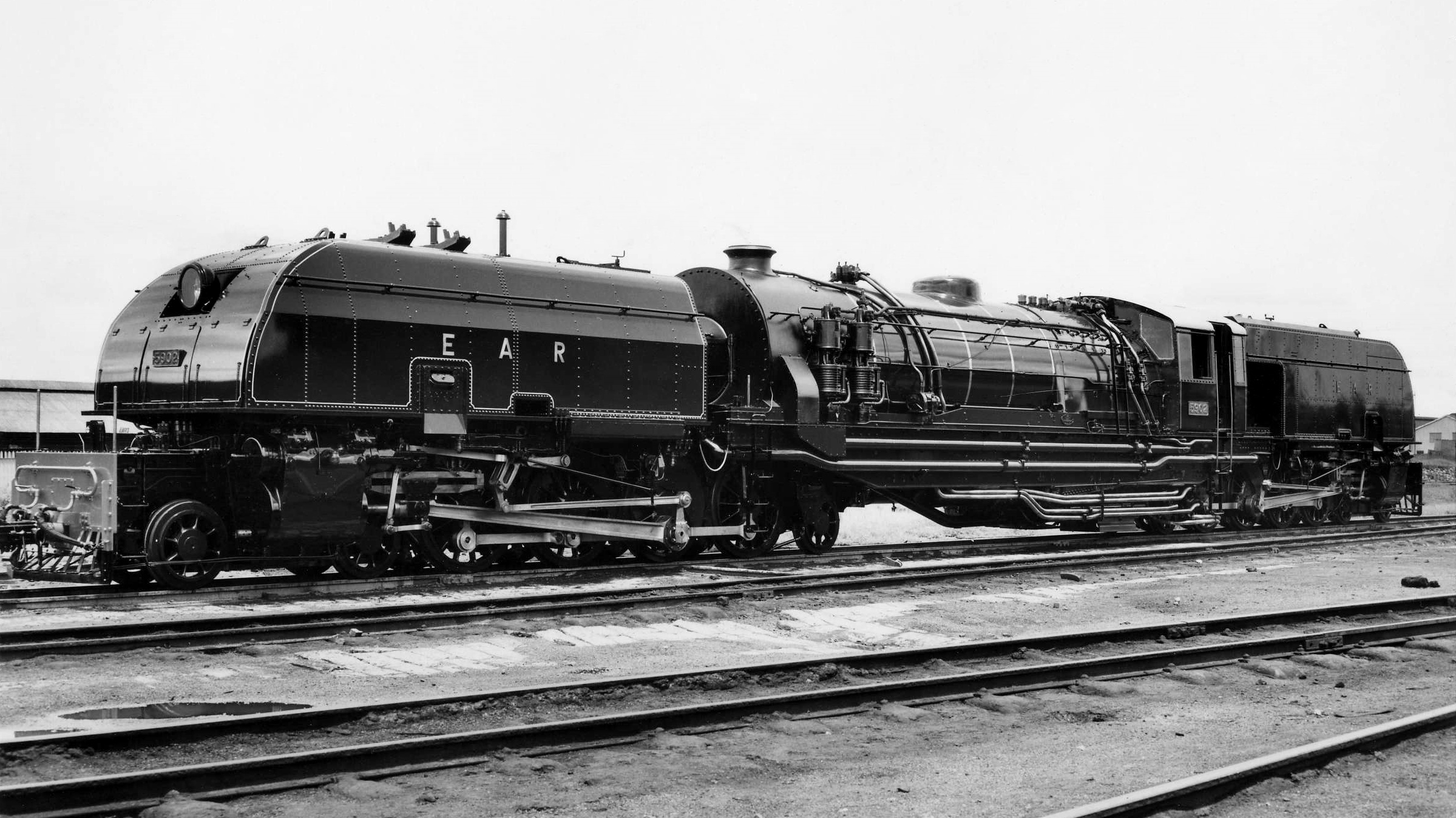 Left facing portrait of East African Railways 59 class Garratt locomotive no. 5902, before it was named Ruwenzori Mountains.